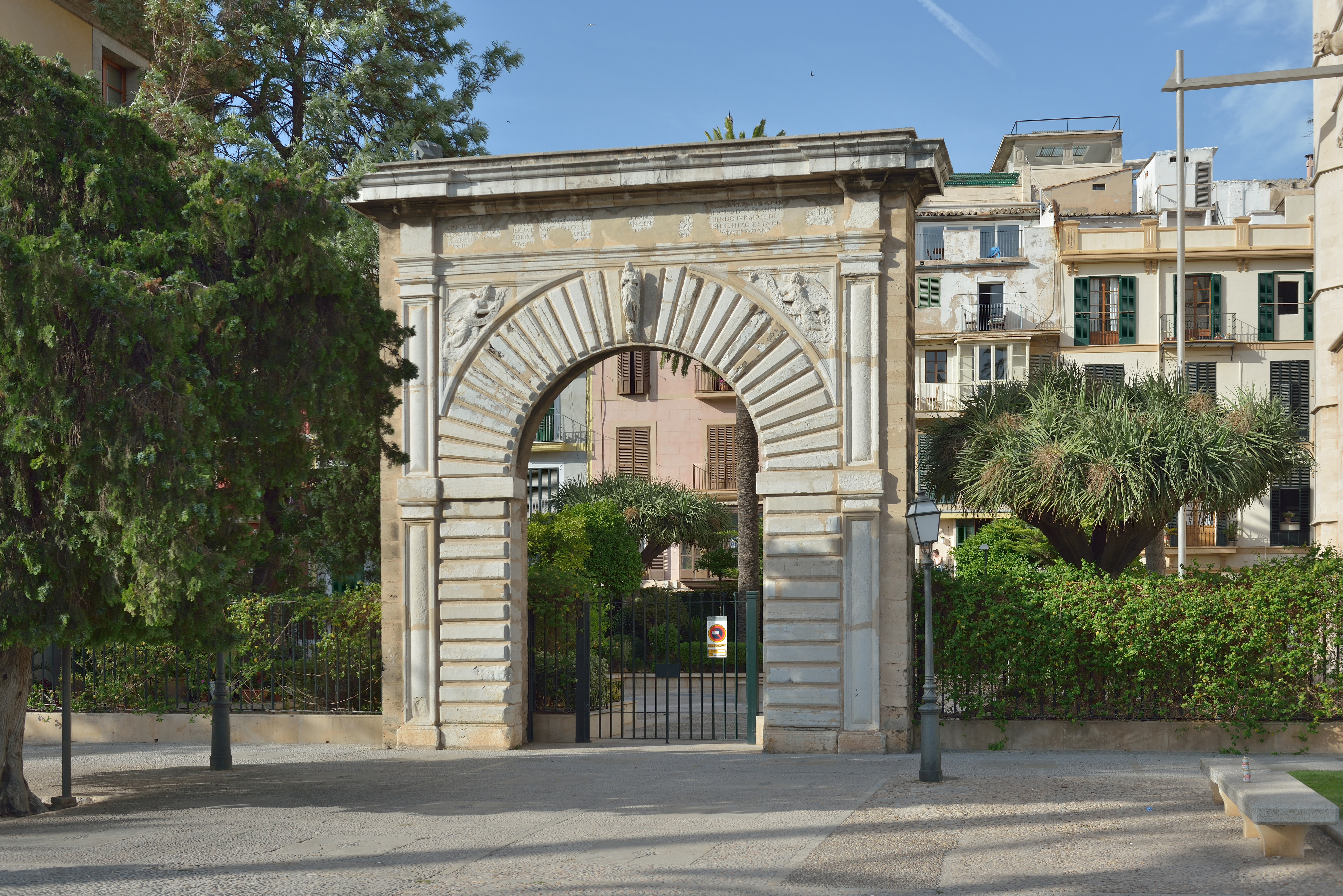 Porta del Moll gate at the Consulado del Mar in Palma de Mallorca .